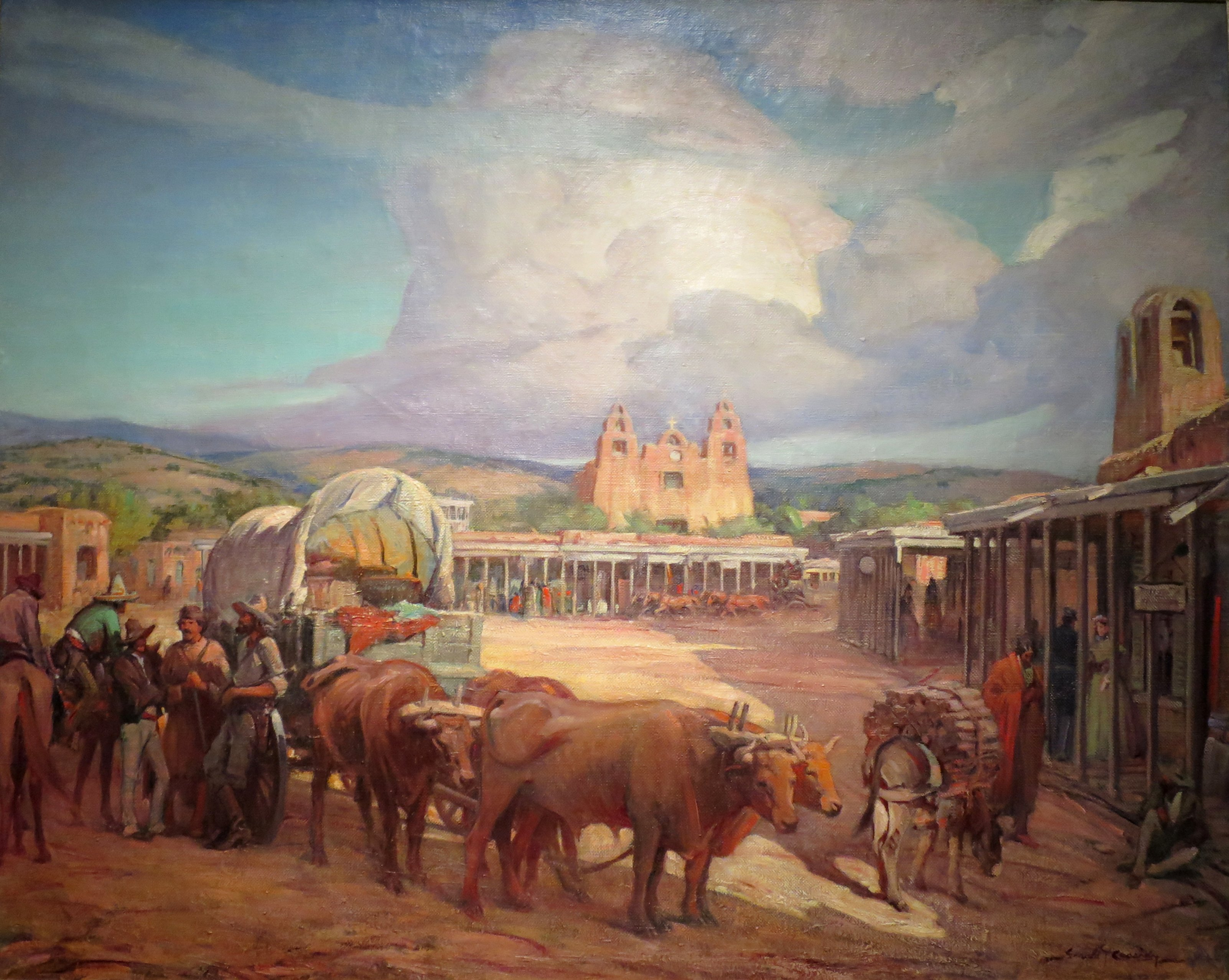 View of Santa Fe Plaza in the 1850s by Gerald Cassidy, c. 1930, oil on canvas, New Mexico Museum of Art